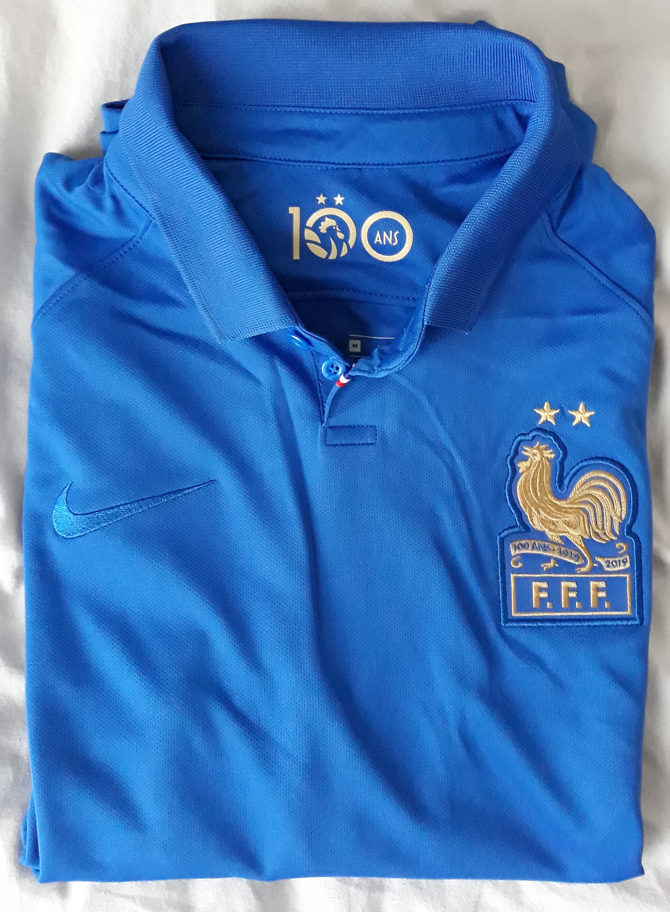 FFF 100 years jersey